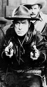 William S. Hart in the American western film The Gun Fighter (1917).